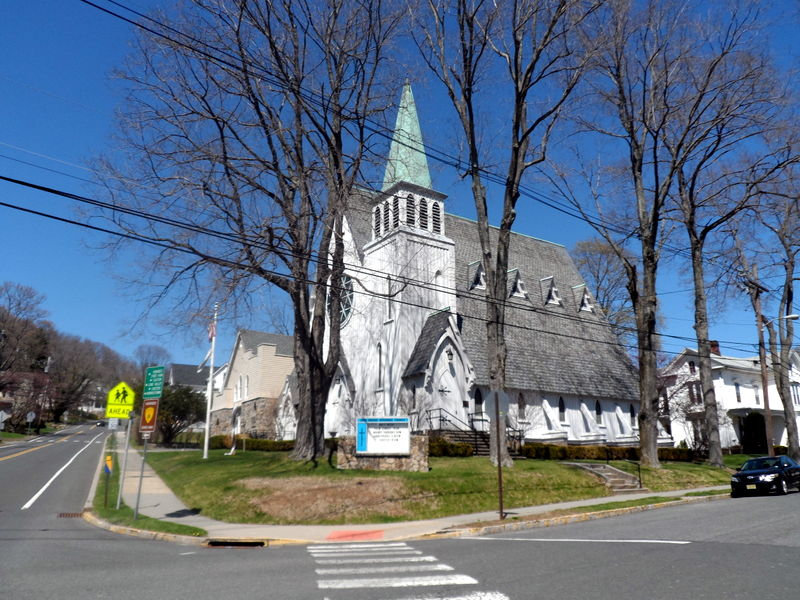 High Bridge Reformed Church, Church St. and CR 513 High Bridge